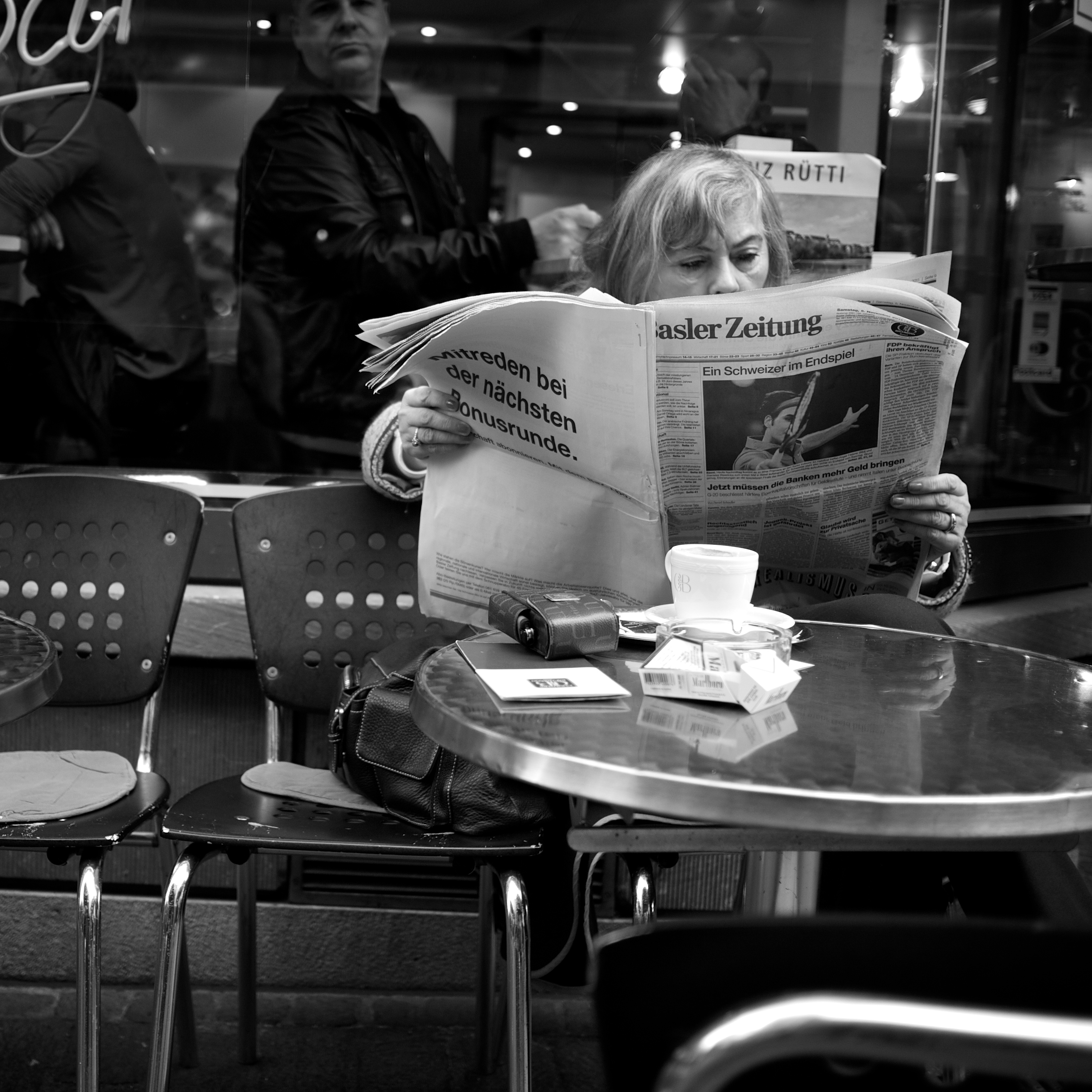 Street photography, Basel 2011.